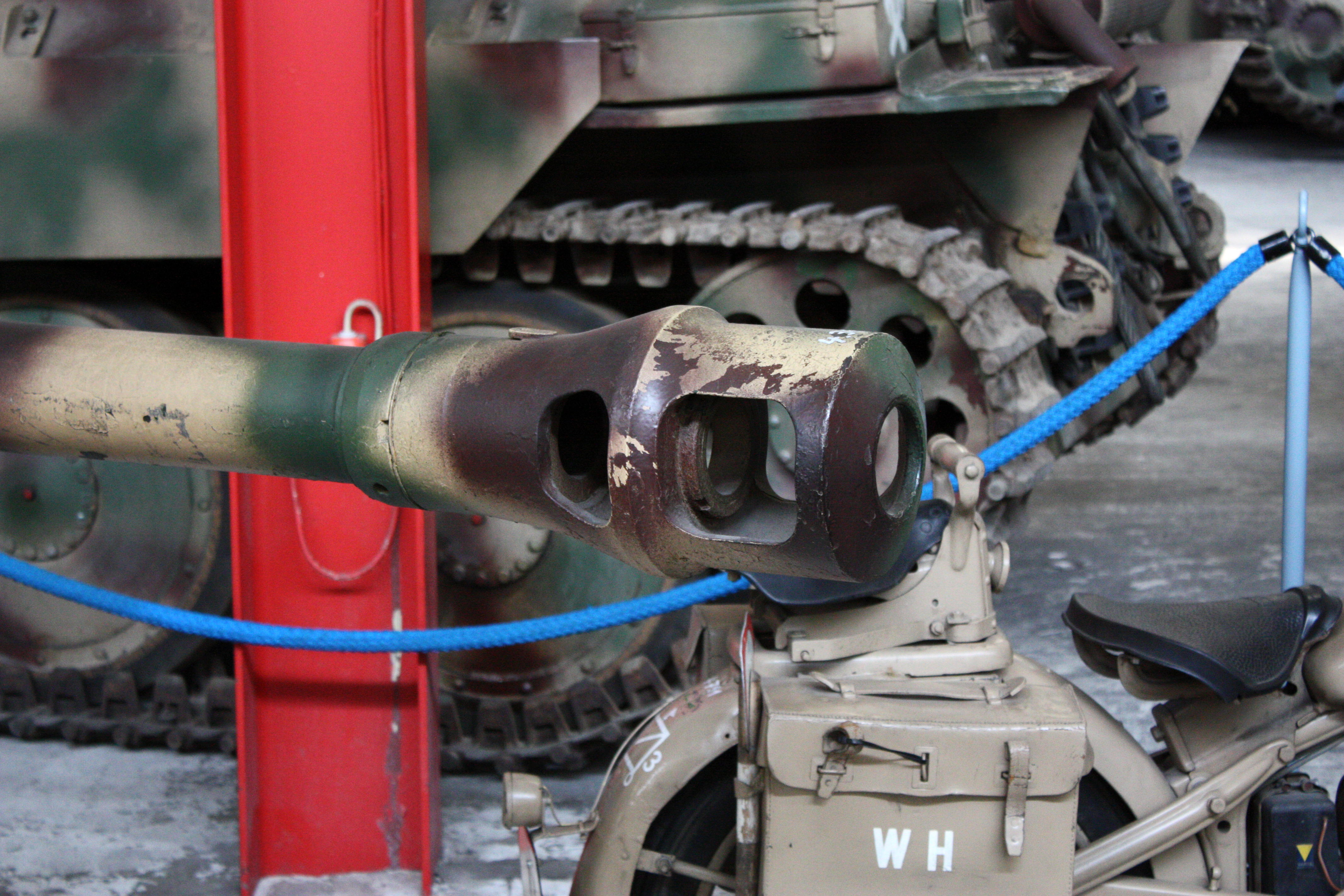 German Tank Museum